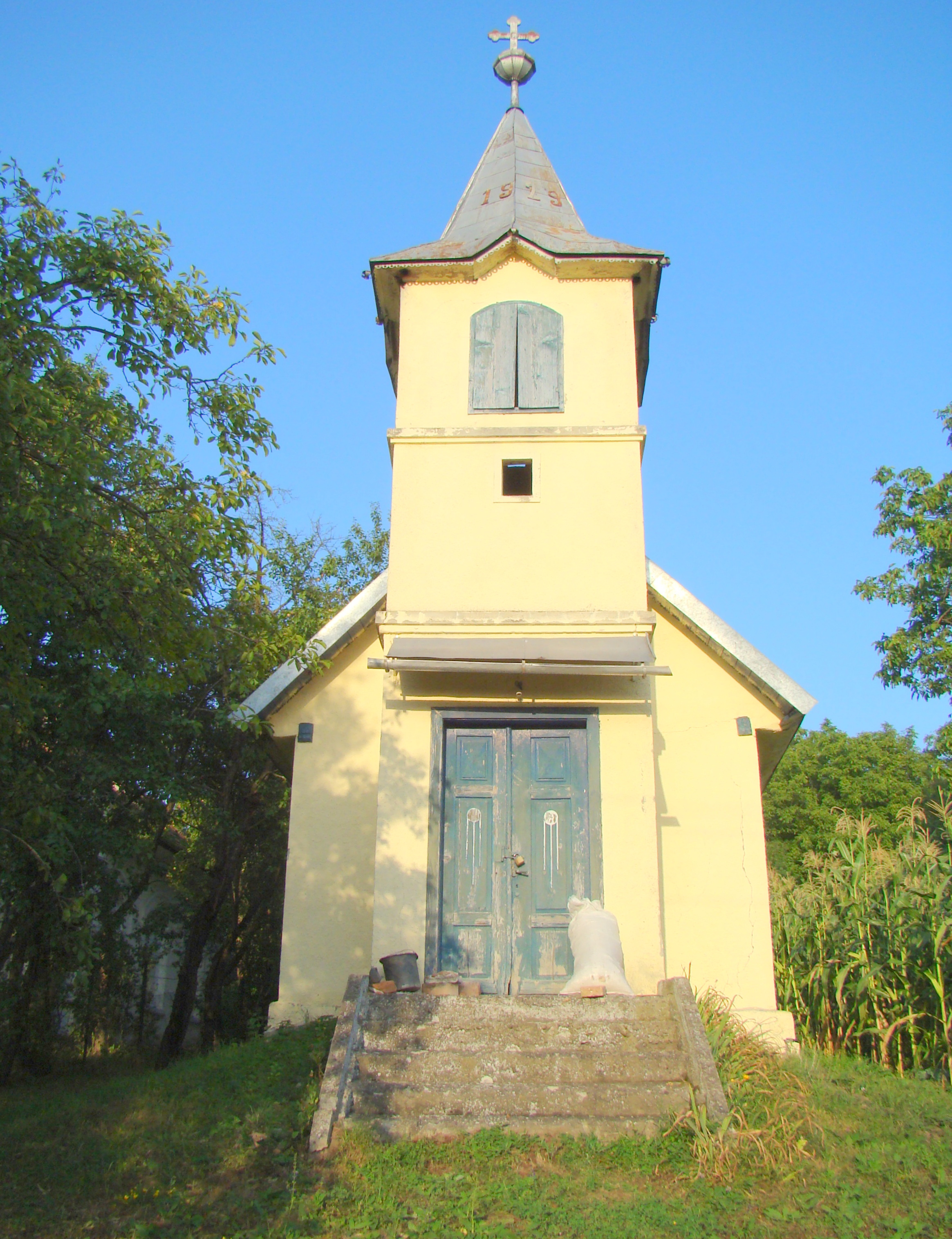 Wooden church in Maiad, Mureș county, Romania